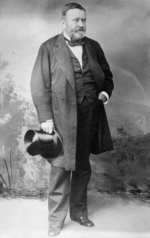 U.S. President Ulysses S. Grant, after the Civil War.